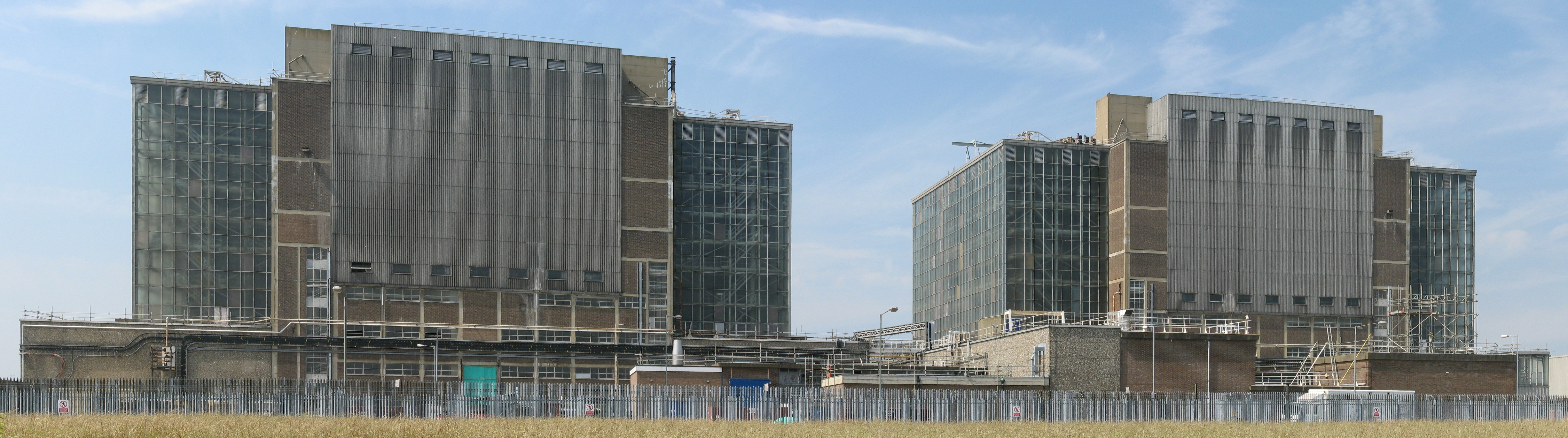 Bradwell nuclear power station, from the east side. The two Magnox reactor buildings are shown, the generator buildings are out of image behind. Photo taken in 2010 during decommissioning, after closure for electricity generation in 2002.